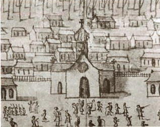 New Orleans, 1726. Sketch showing first parish Church of St. Louis, located where the St. Louis Cathedral would later be built. Detail of "Veüe et Perspective de la Nouvelle Orleans" (View & Perspective of New Orleans), 1726. Ink and watercolor by Jean-Pierre Lassus.